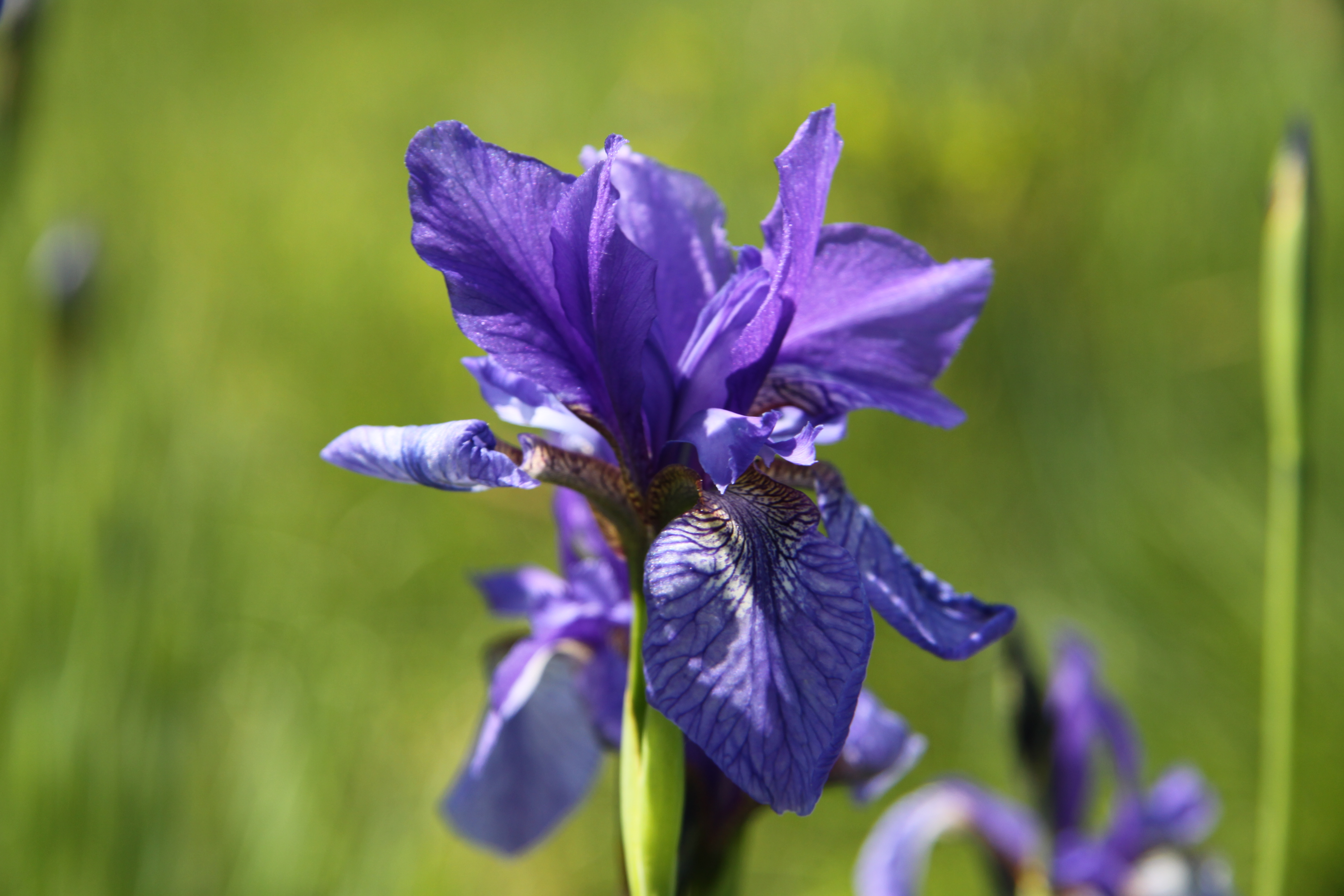 Iris sibirica in natural monument Novoveská draha near Nová ves village near Nepomuk, Plzeň-jih District, Czech Republic